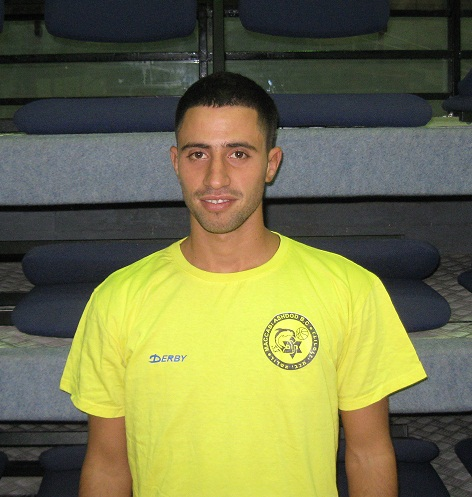 Yoni Dray in maccabi ashdod (2010)